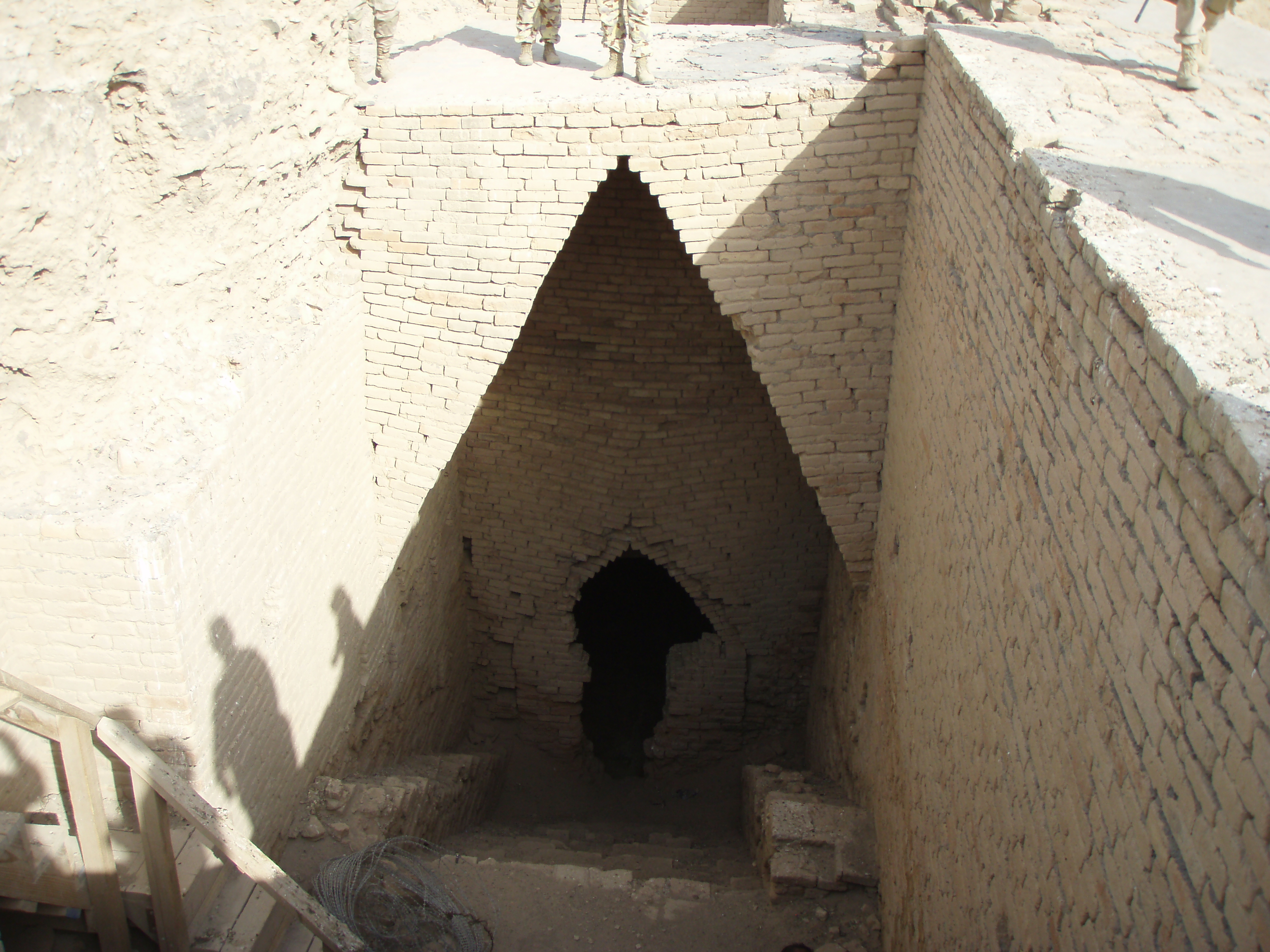 Tomb of King in Ur, Iraq